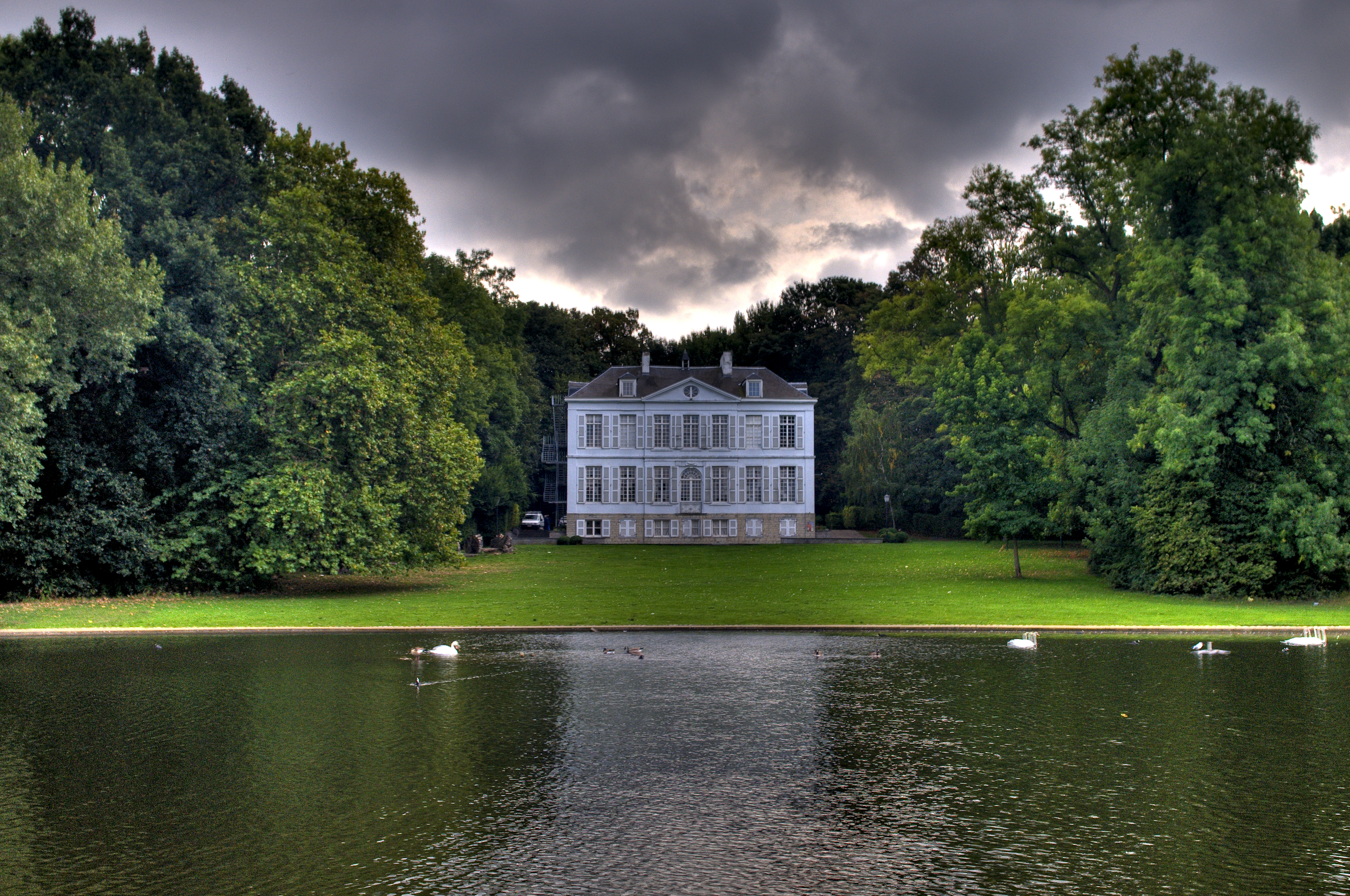 in HDR, 5 frames, step .7